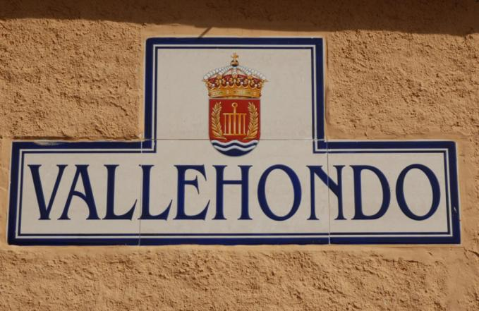 Escudo de Vallehondo